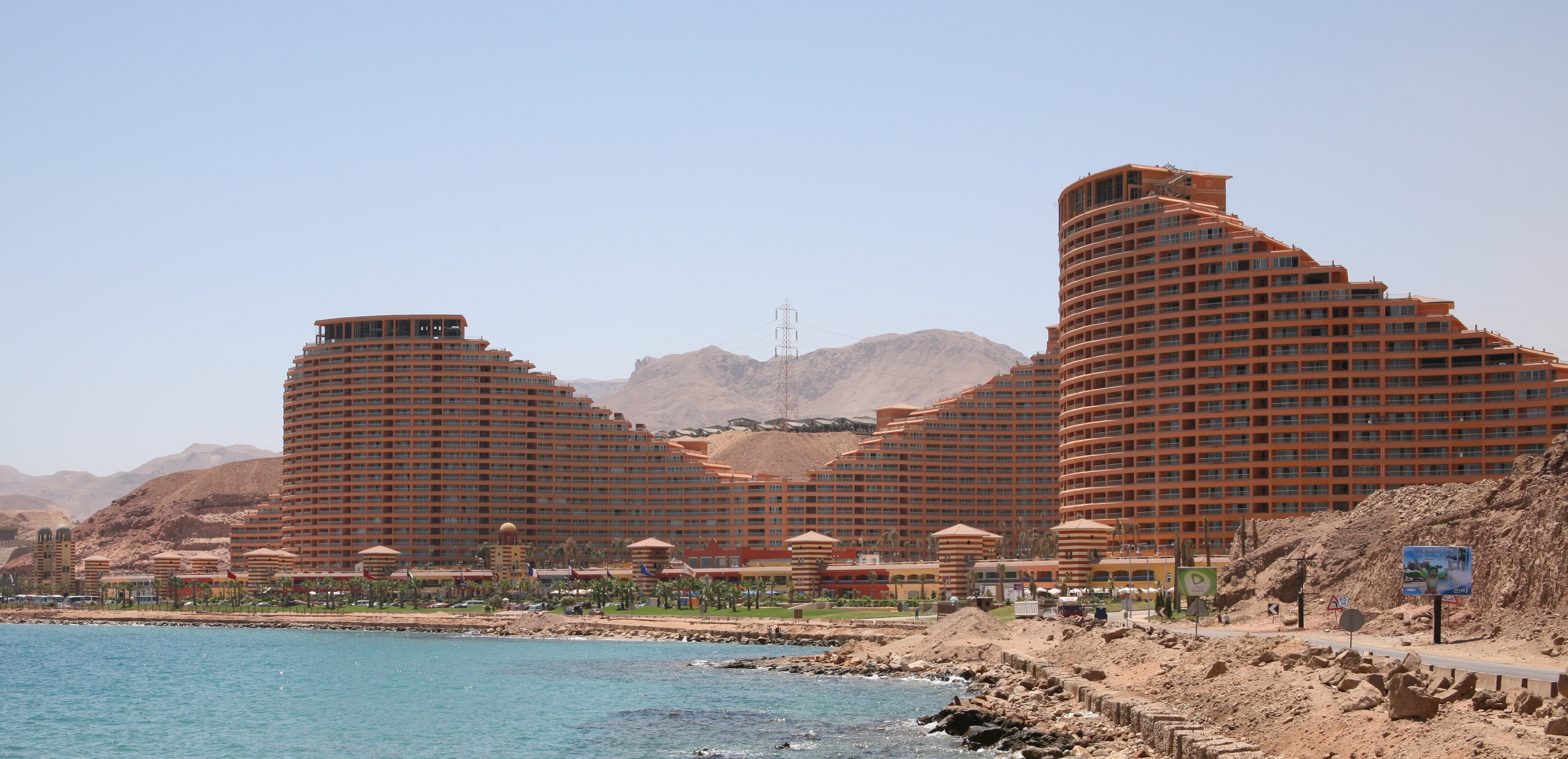 Porto Sokhna ,Red Sea ,Egypt